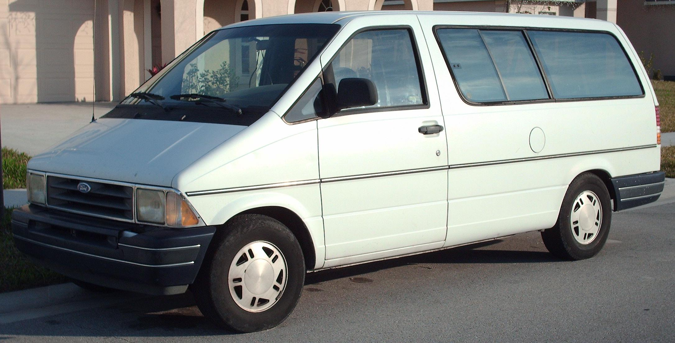 1992-1997 Ford Aerostar photographed in Orlando, FL, USA.